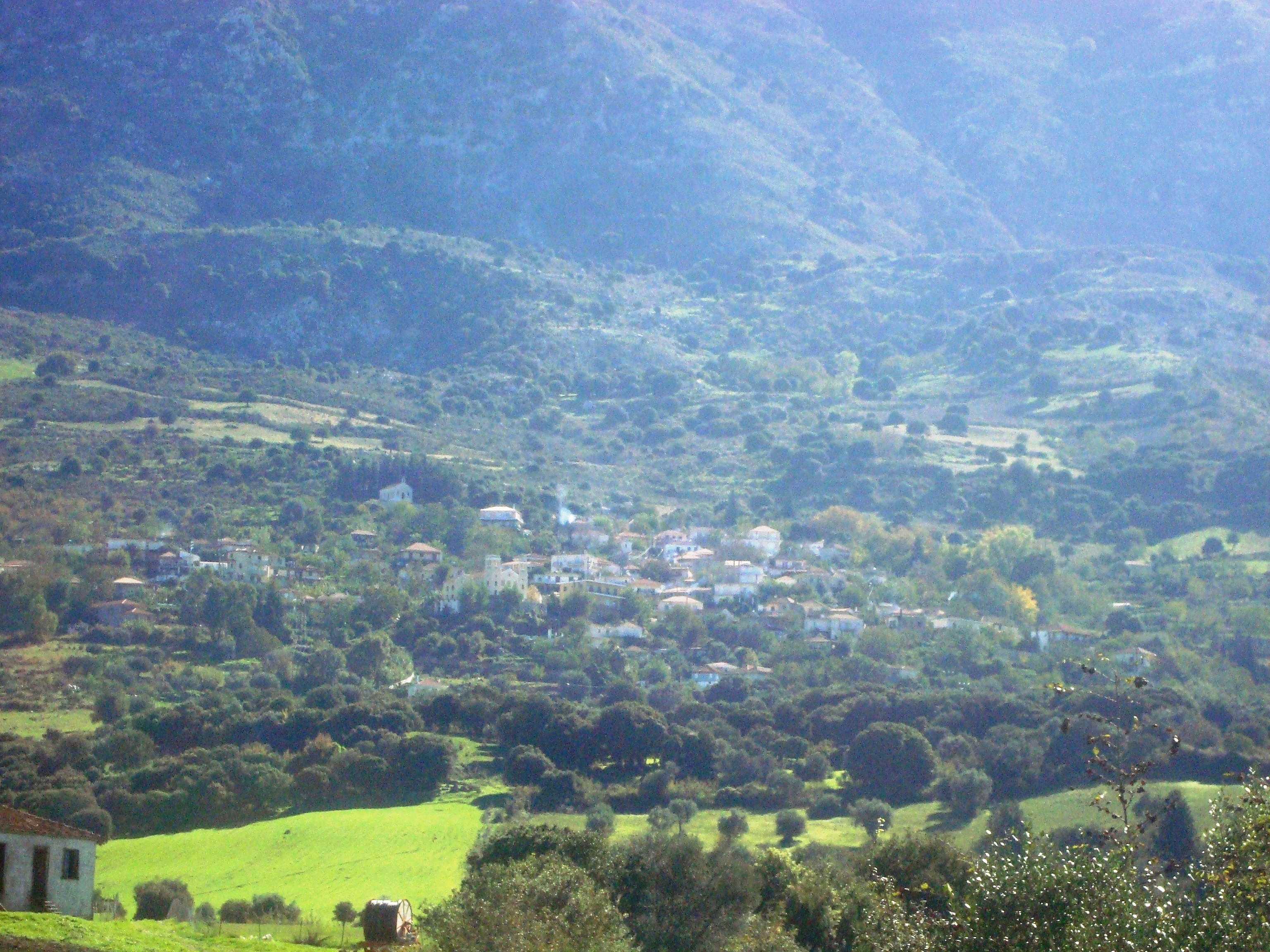 Skiadas village